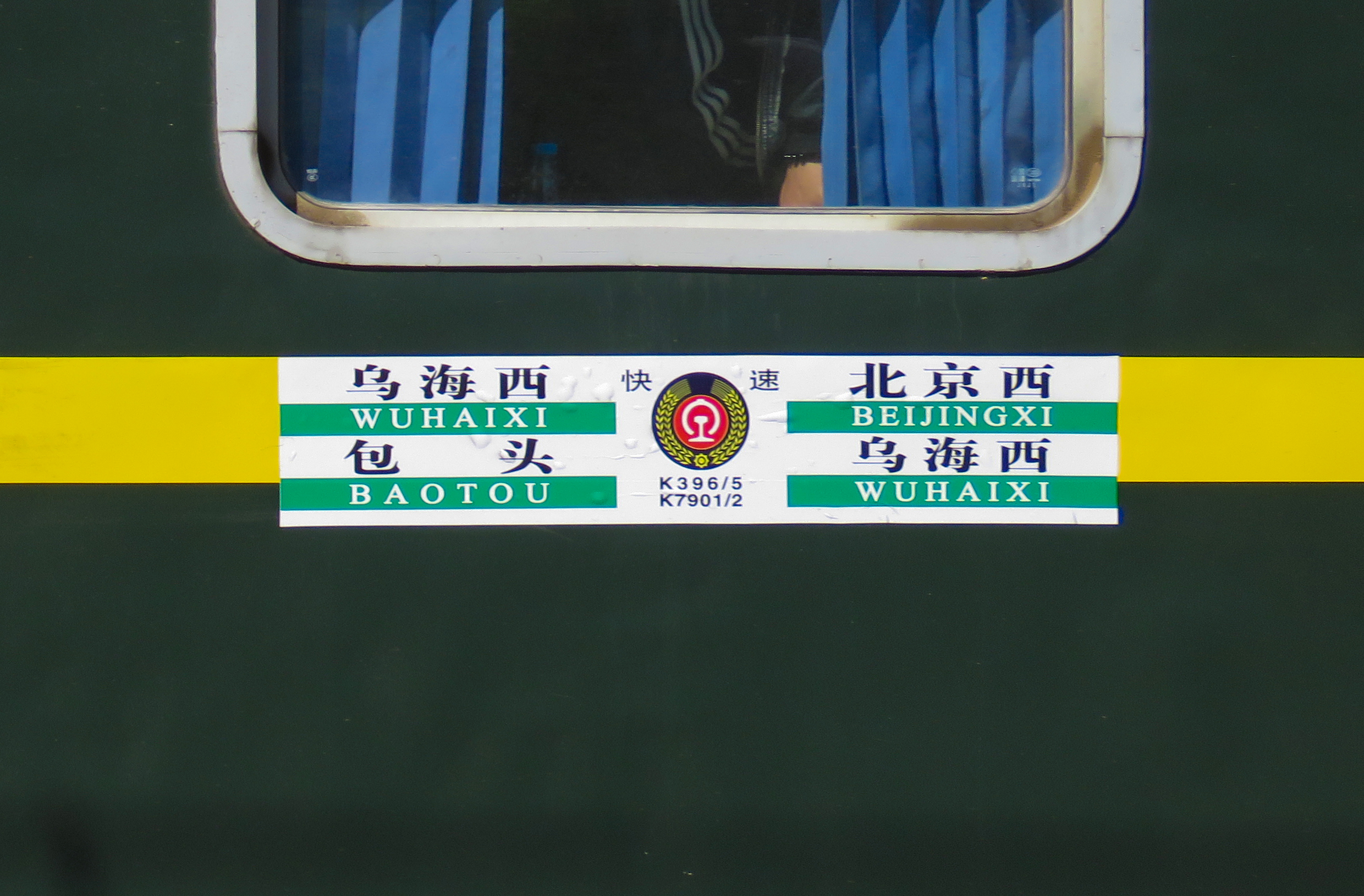 This is what K1596 has become.